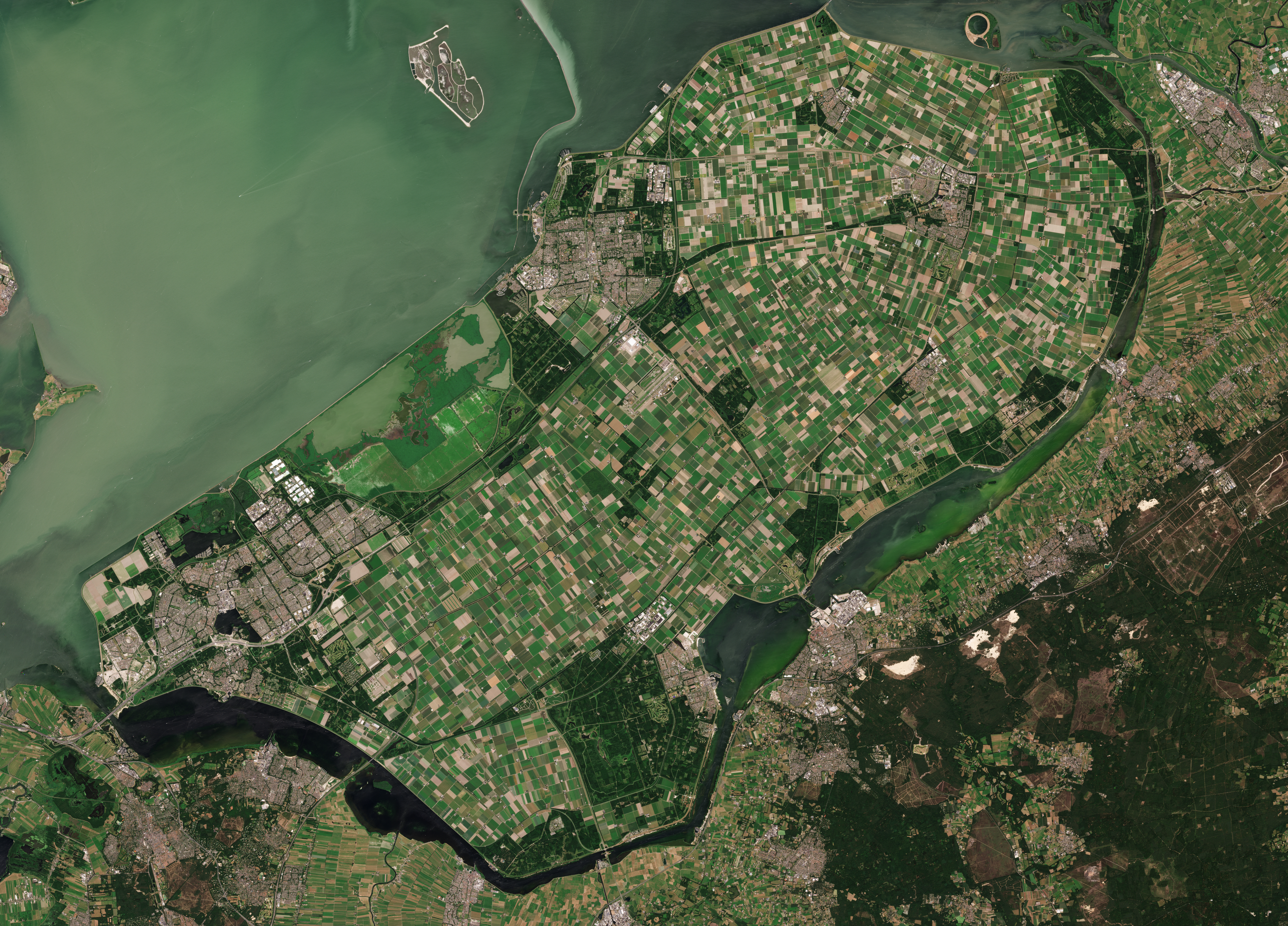 Date: 2018-06-30 Sensor: MSI on Sentinel-2A Resolution: 10m RGB Composites: True color, Band 4-3-2